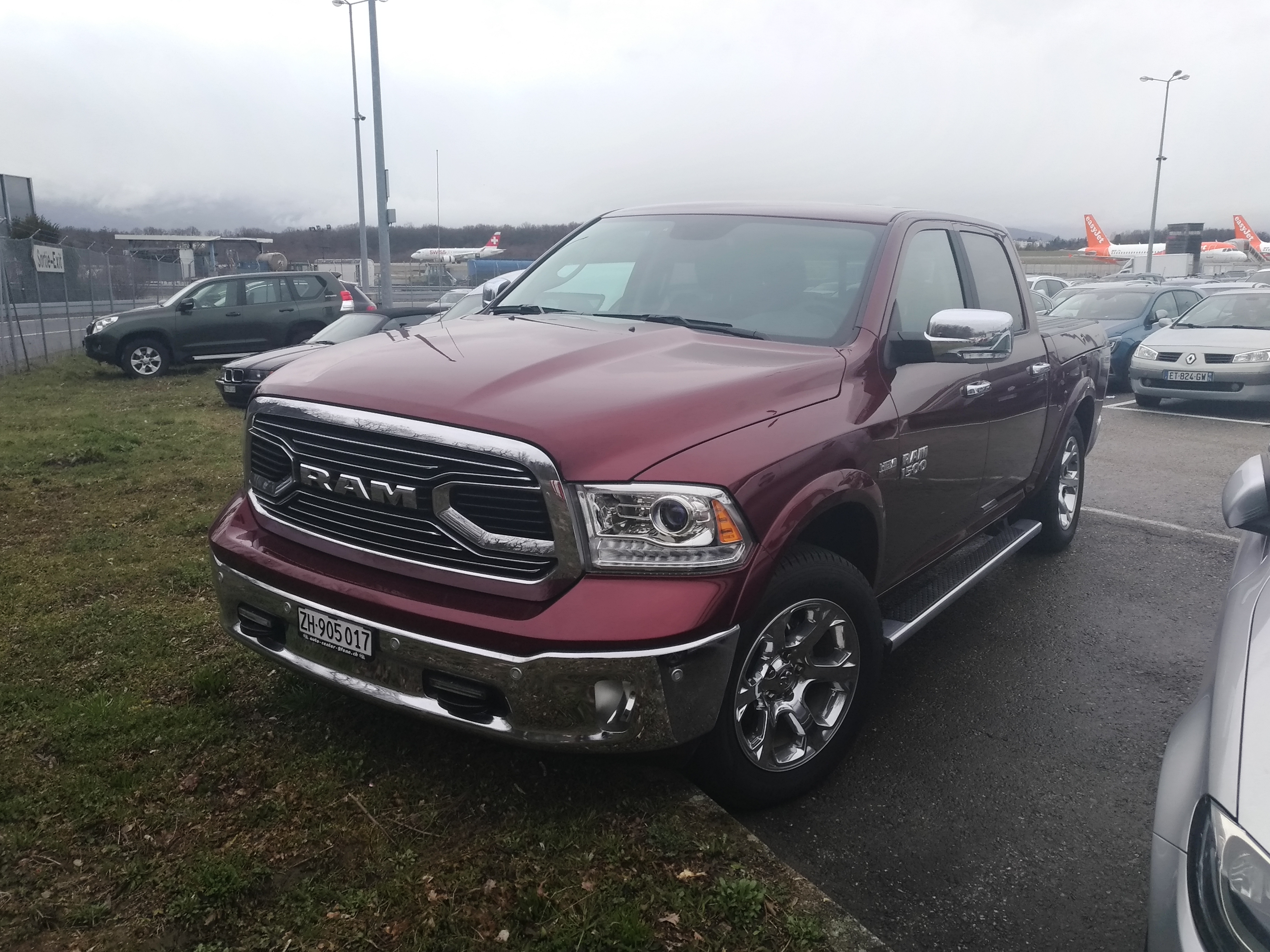 RAM 1500